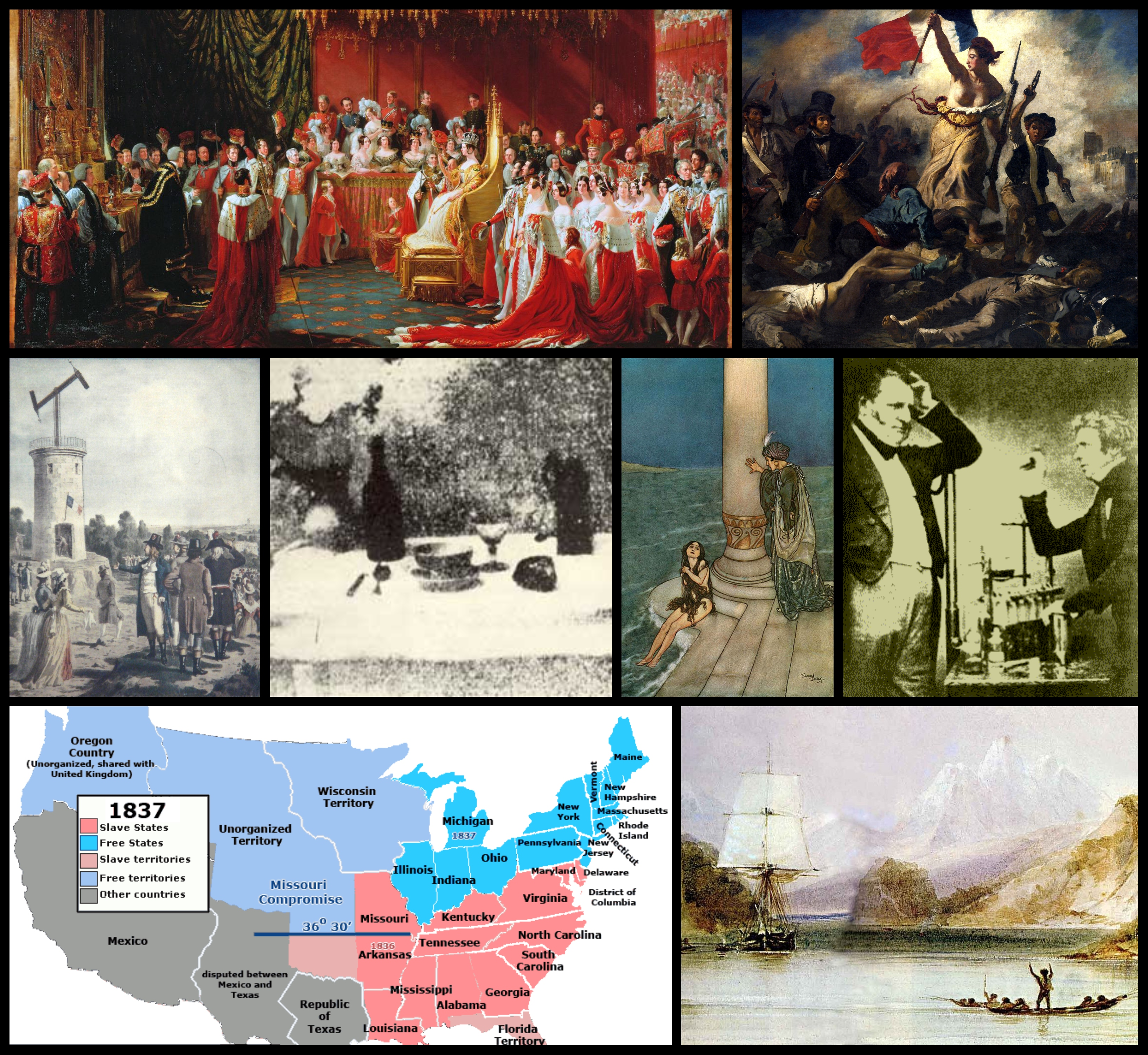 A montage of notable events in the 1830s.